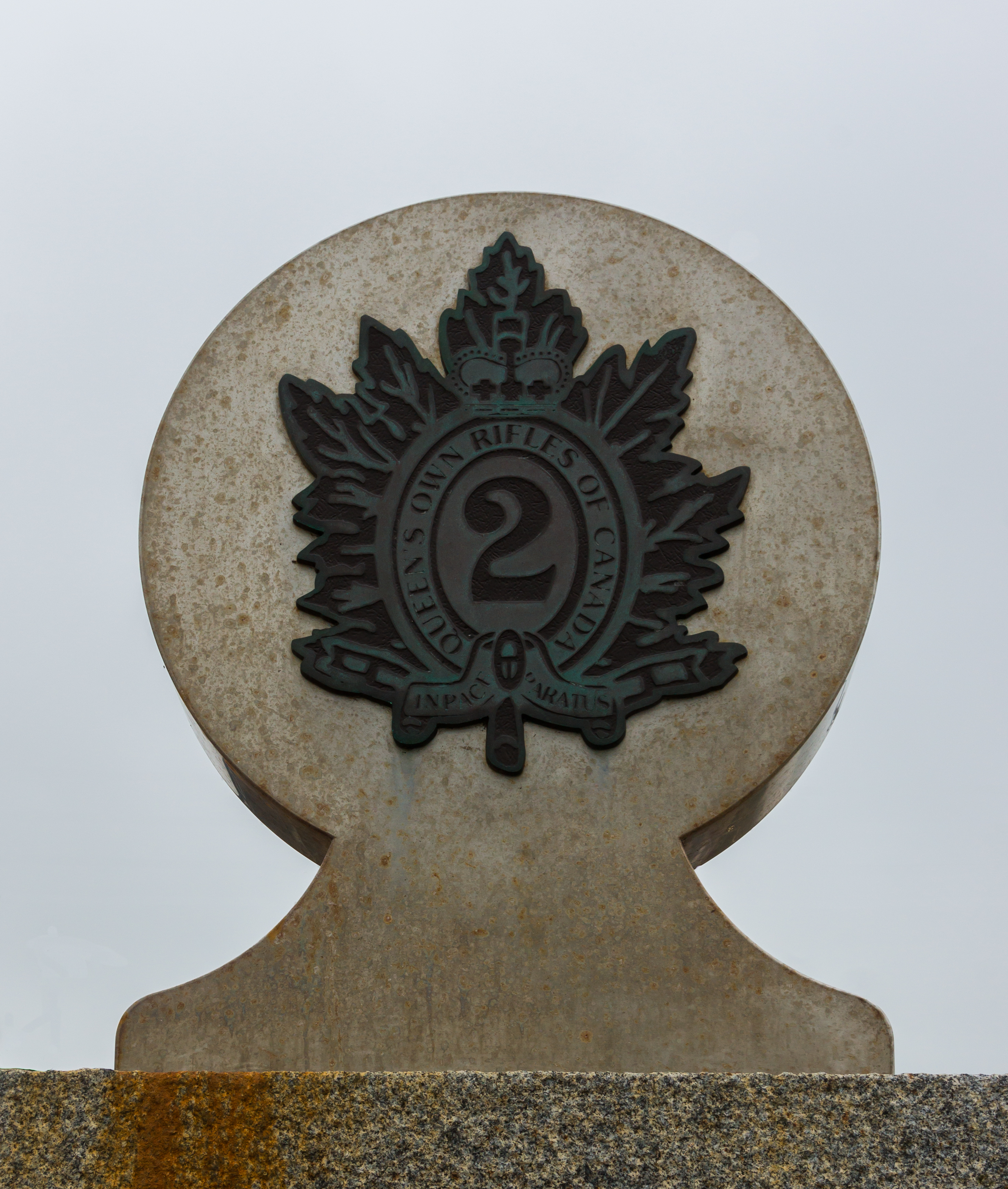 Detail of the monument to the 2nd Canadian Queen's Own Rifles, Juno Beach, Calvados, Normandy, France.